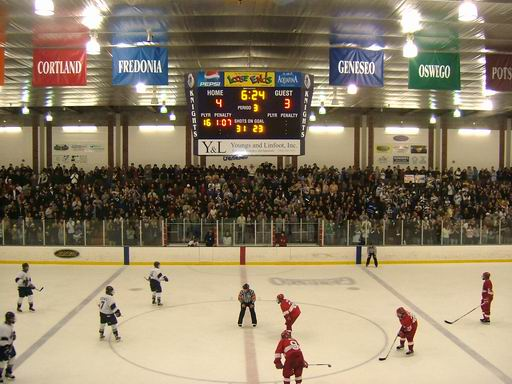 A Geneseo Ice Knights hockey game at the Ira S. Wilson Ice Arena.